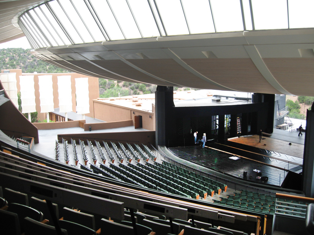 This view of the interior of the Crosby Theater at the Santa Fe Opera was taken from the most remote corner of the balcony section. The white wind baffles are visible on the left.